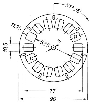 Specifications for View-Master-reels as described in DIN 4531 (Germany)